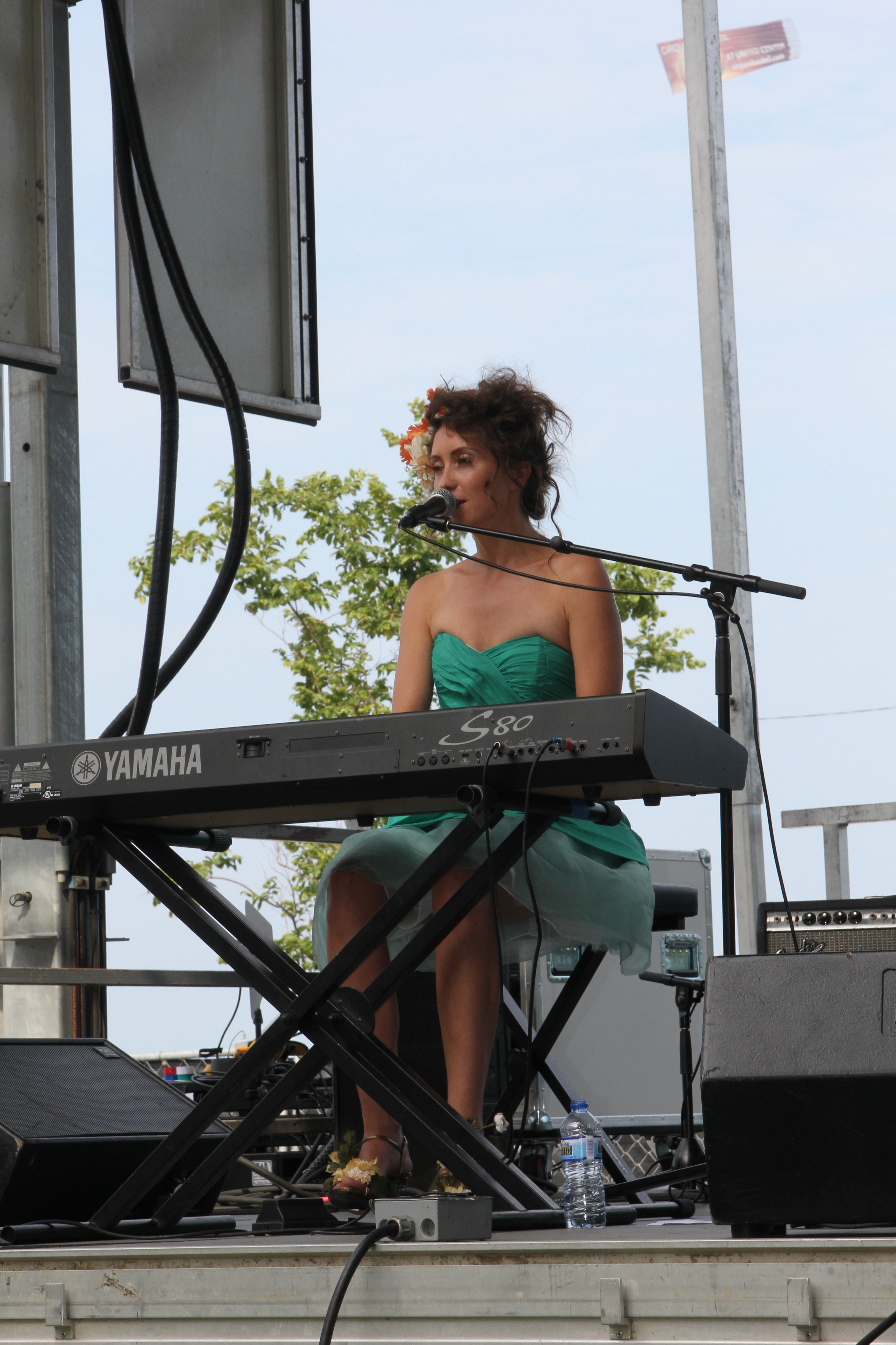 Elizaveta Khripounova in concert.